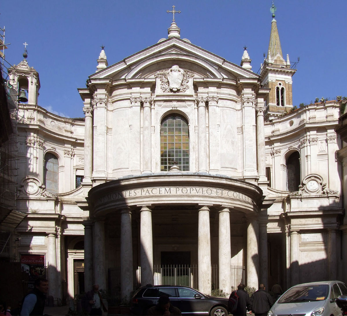 Santa Maria della Pace, Rome